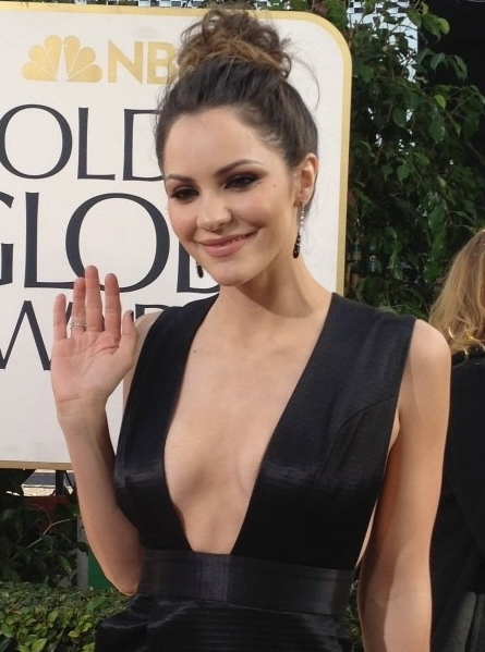 Katharine McPhee at the Golden Globes 2013.